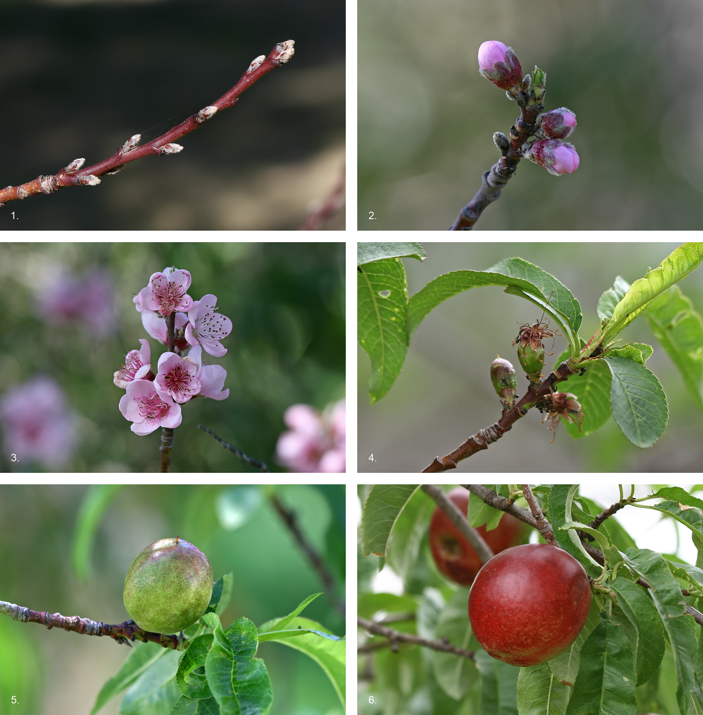 Nectarine (Prunus persica) fruit development over a 7½ month period, from early winter to midsummer; East Gippsland, Victoria, Australia. Bud formation can be observed on new growth on the plant (early winter) (individual image) Flower buds clearly formed and leaves start to develop (early spring, ≈ 3 months) (individual image). Flowers fully develop and are pollinated by wind or insects (early spring, ≈ 3½ months) (individual image). If successfully pollinated, flowers die back and incipient fruit can be observed; leaves have quickly grown to provide tree with food and energy from photosynthesis (mid-spring, ≈ 4 months) (individual image). Fruit is well developed and continues to grow (late spring, ≈ 5½ months) (individual image). Fruit fully ripens to an edible form to encourage spreading of seed contained within by animals (midsummer, ≈ 7½ months) (individual image).